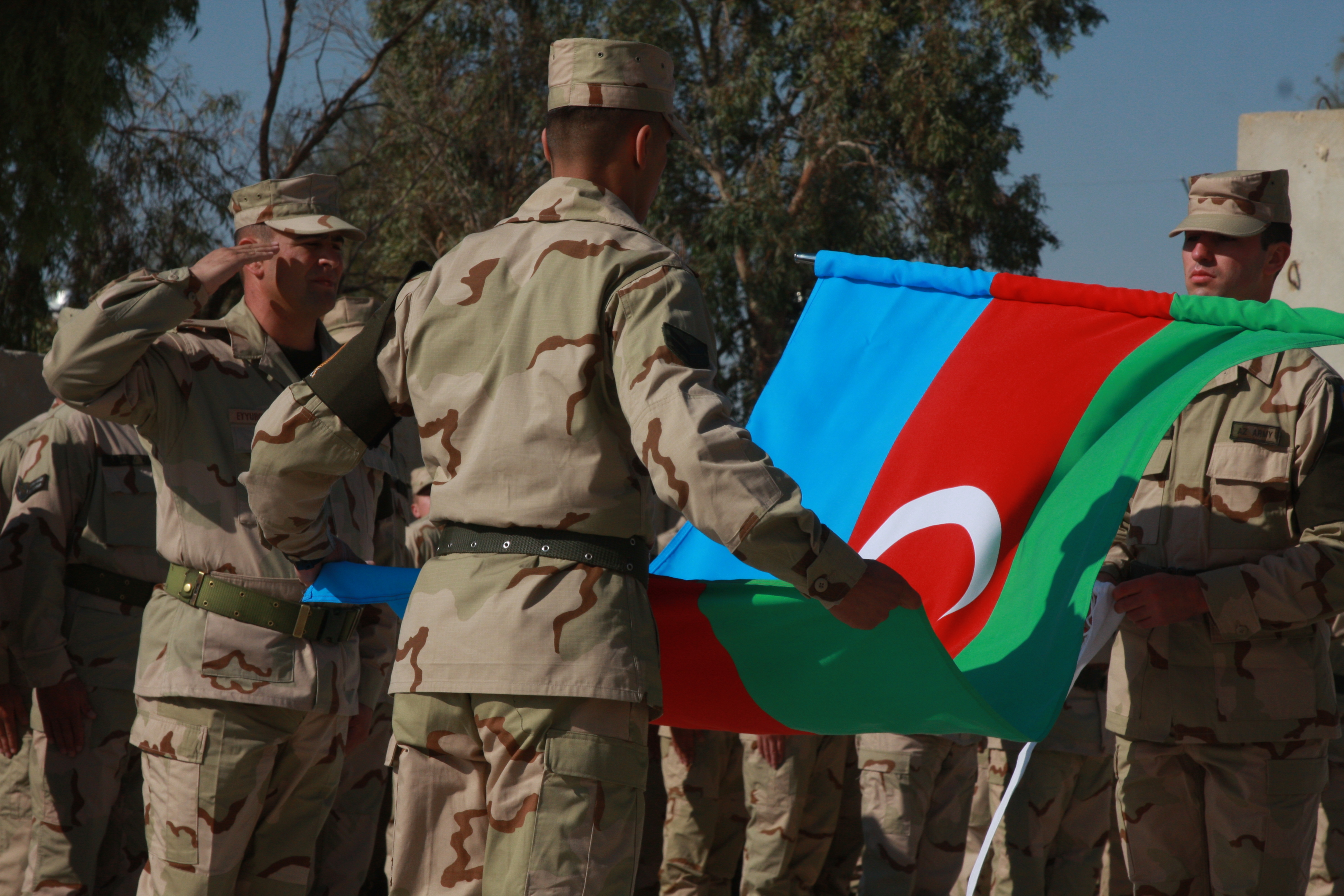 Azeri peacekeepers rolling up the national flag as a symbol of their departing Iraq at an appreciation ceremony in Camp Ripper